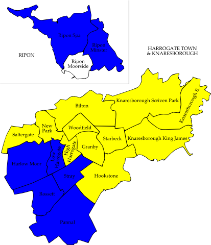 A map of the results of the 2010 Harrogate Council election. Rural areas of the council, which did not have elections in 2010, are not shown on the map. Colour legend by wards won: Liberal Democrats Conservative party Independents